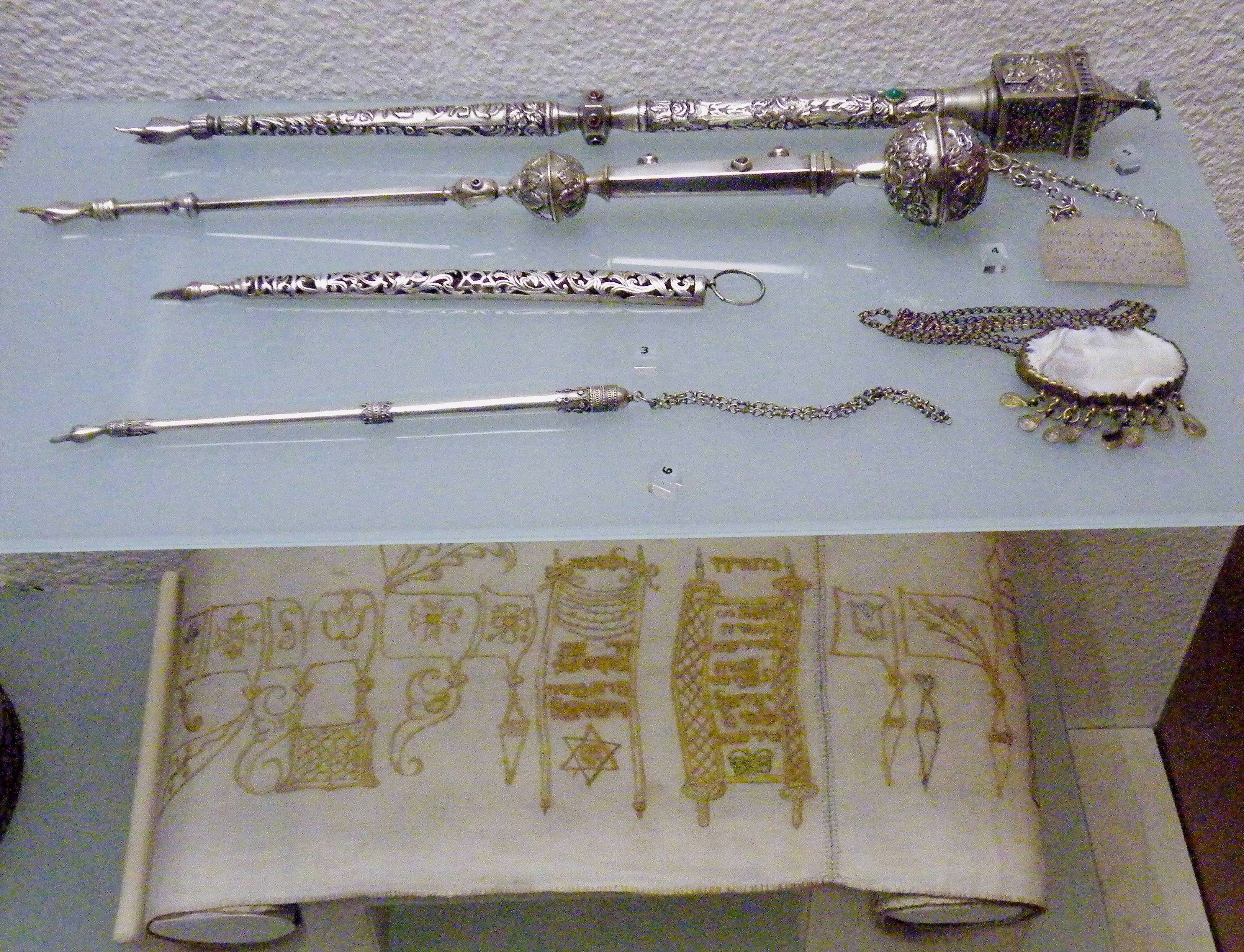 Page pointers for reading of Torah, El Transito Synagogue, Spain.